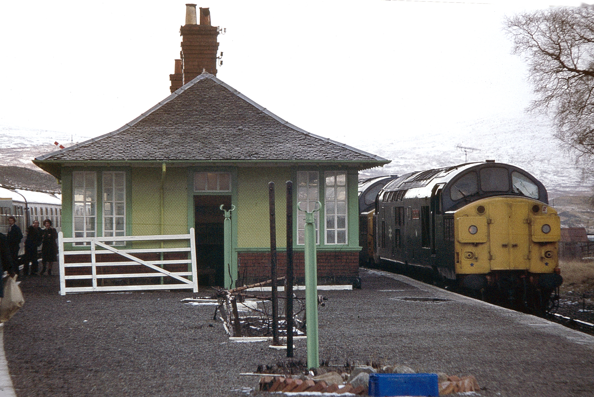 March 1982 First of the Class 37 is named.